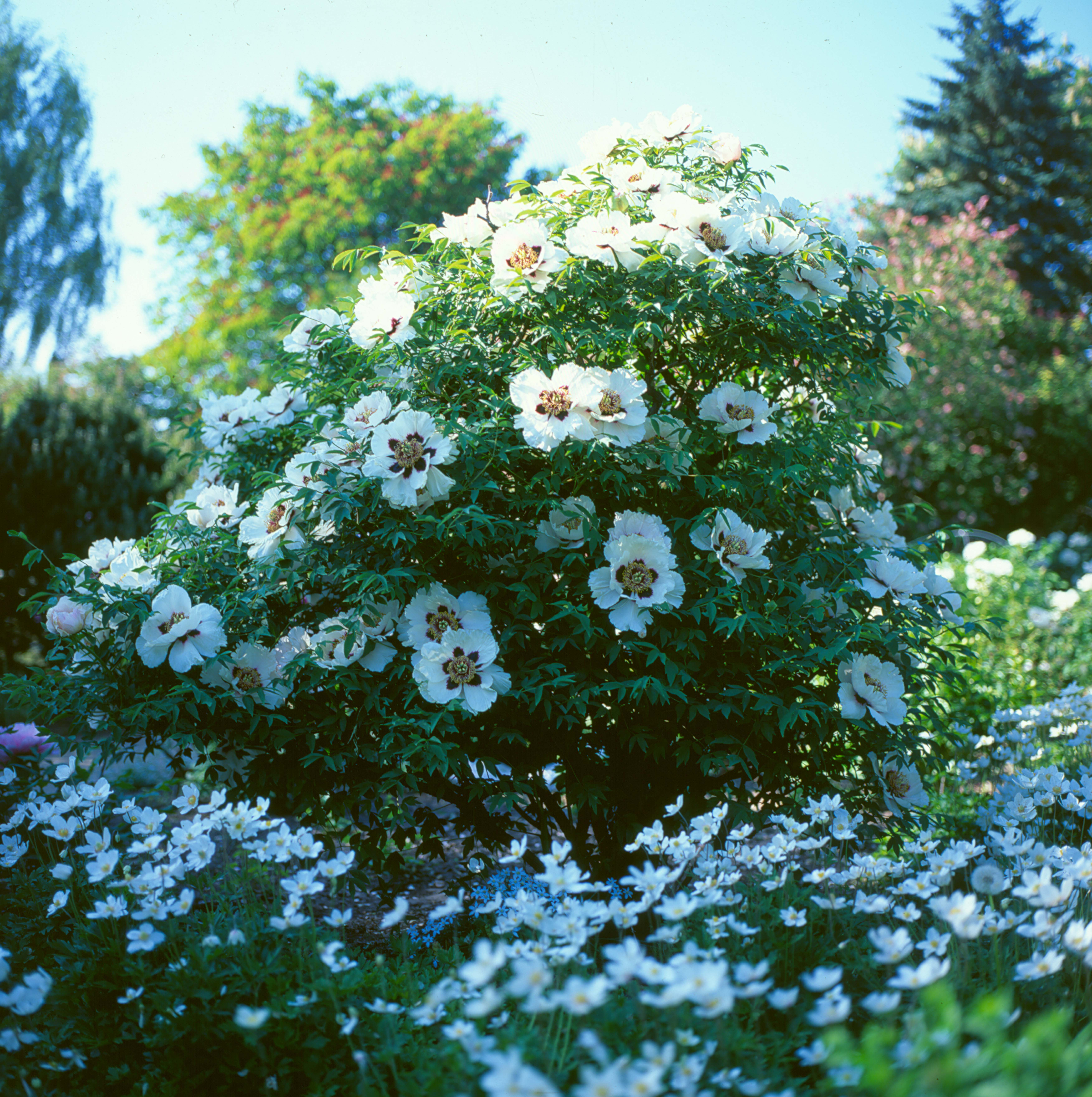 Flowering Tree peony (Paeonia rockii) in the Arboretum Ellerhoop, Schleswig-Holstein, Germany